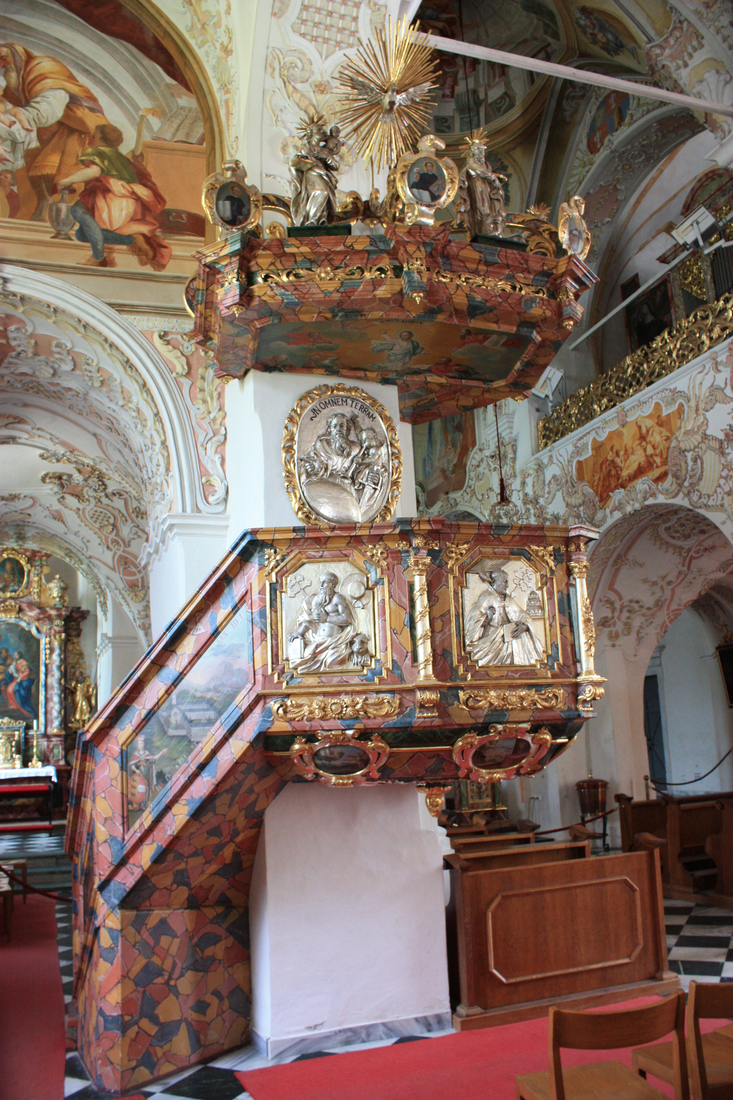 Monastery Ossiach - Pulpit (1725) Community:Ossiach District:Feldkirchen State:Carinthia Country:Austria